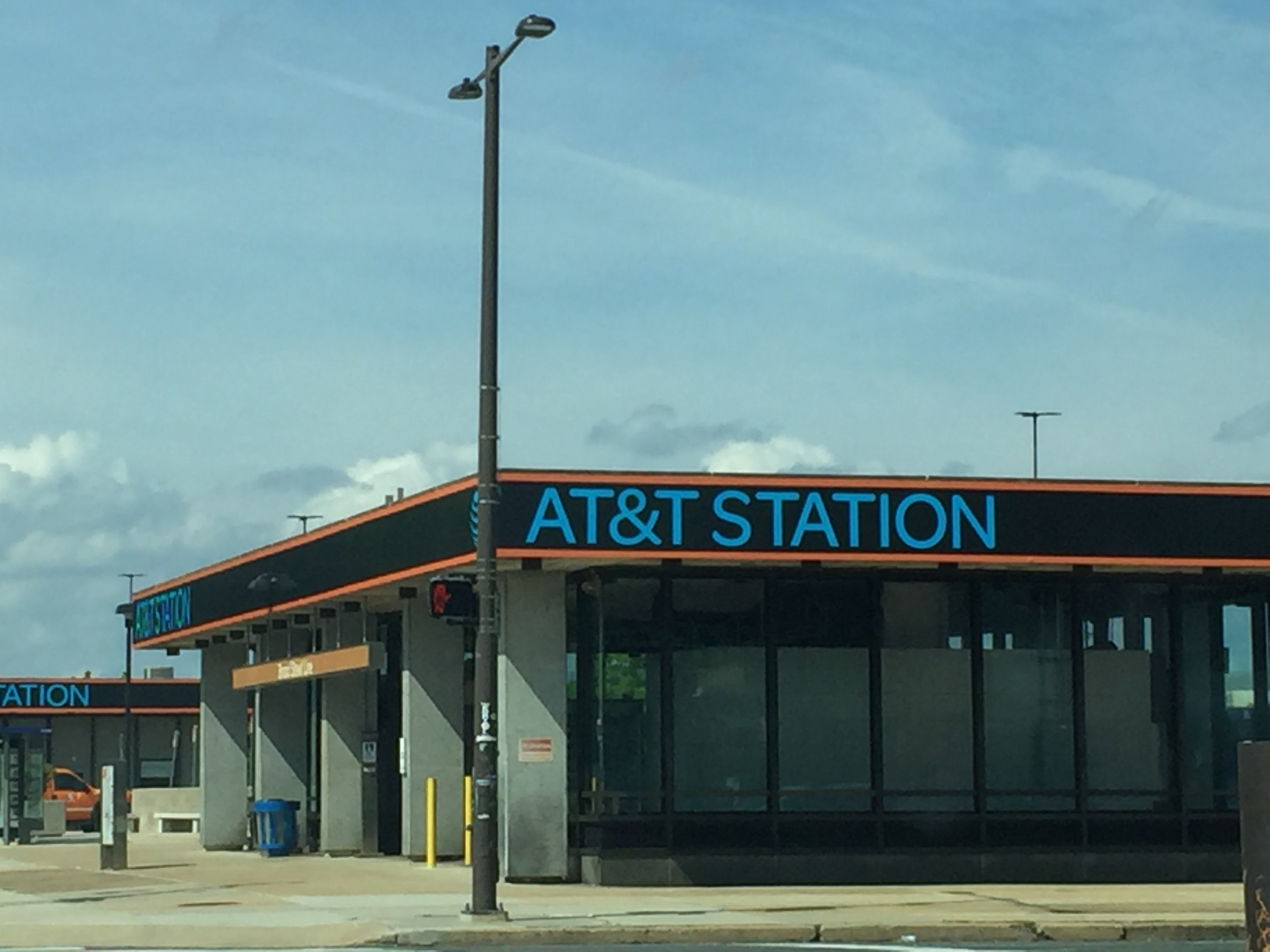 AT&T Station